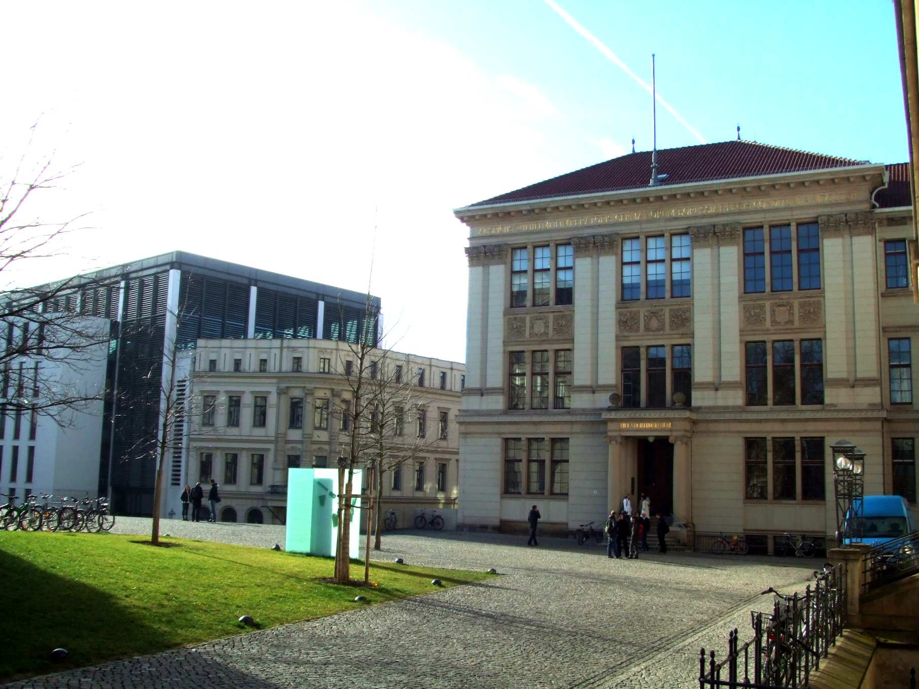 Photo of MLU's Melanchthoneanum, built in 1900-1903, made with Fuji Finepix Z1